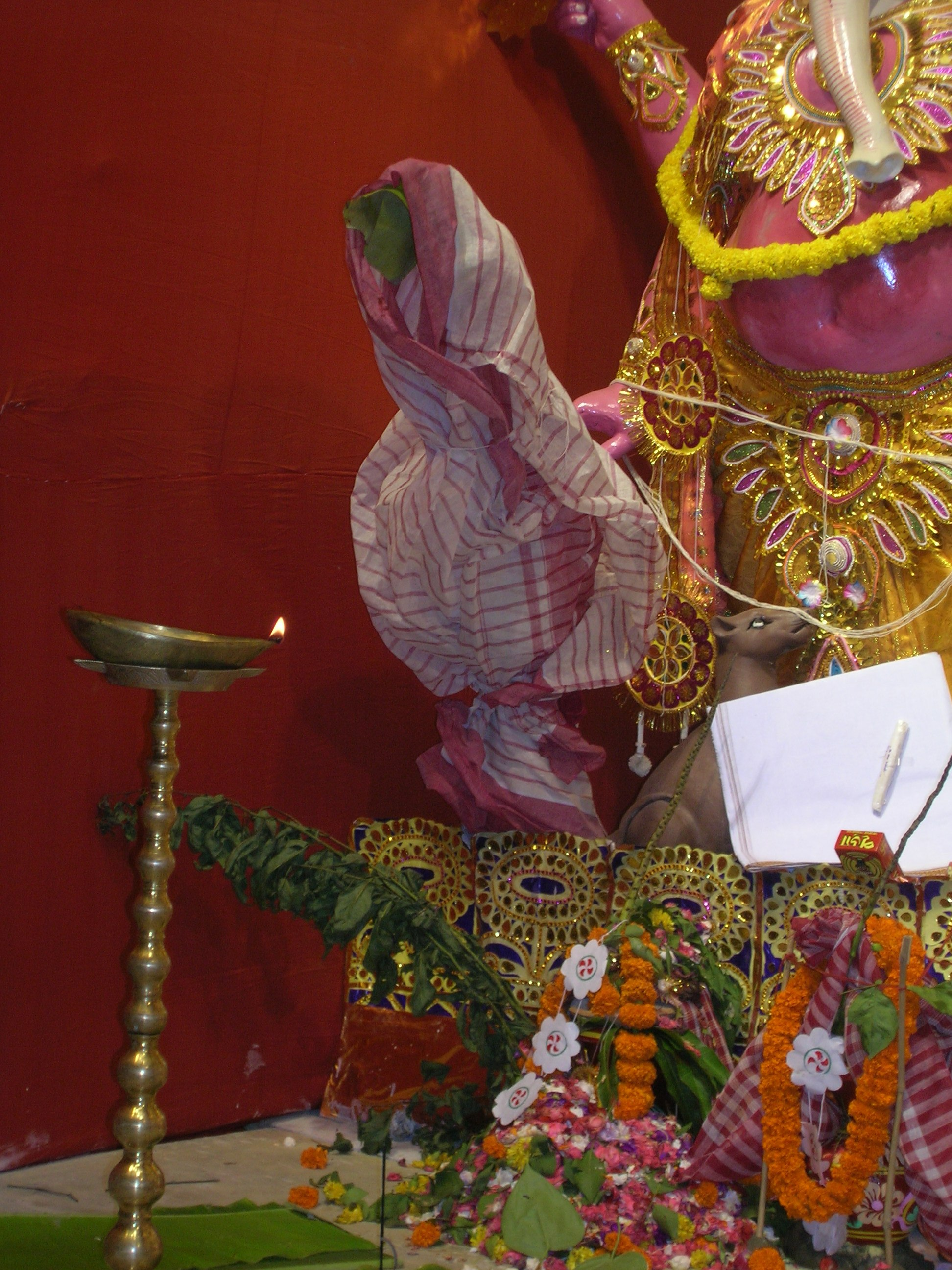 Nabapatrika at a South Kolkata Durga Puja pandal on the day of Mahasaptami.